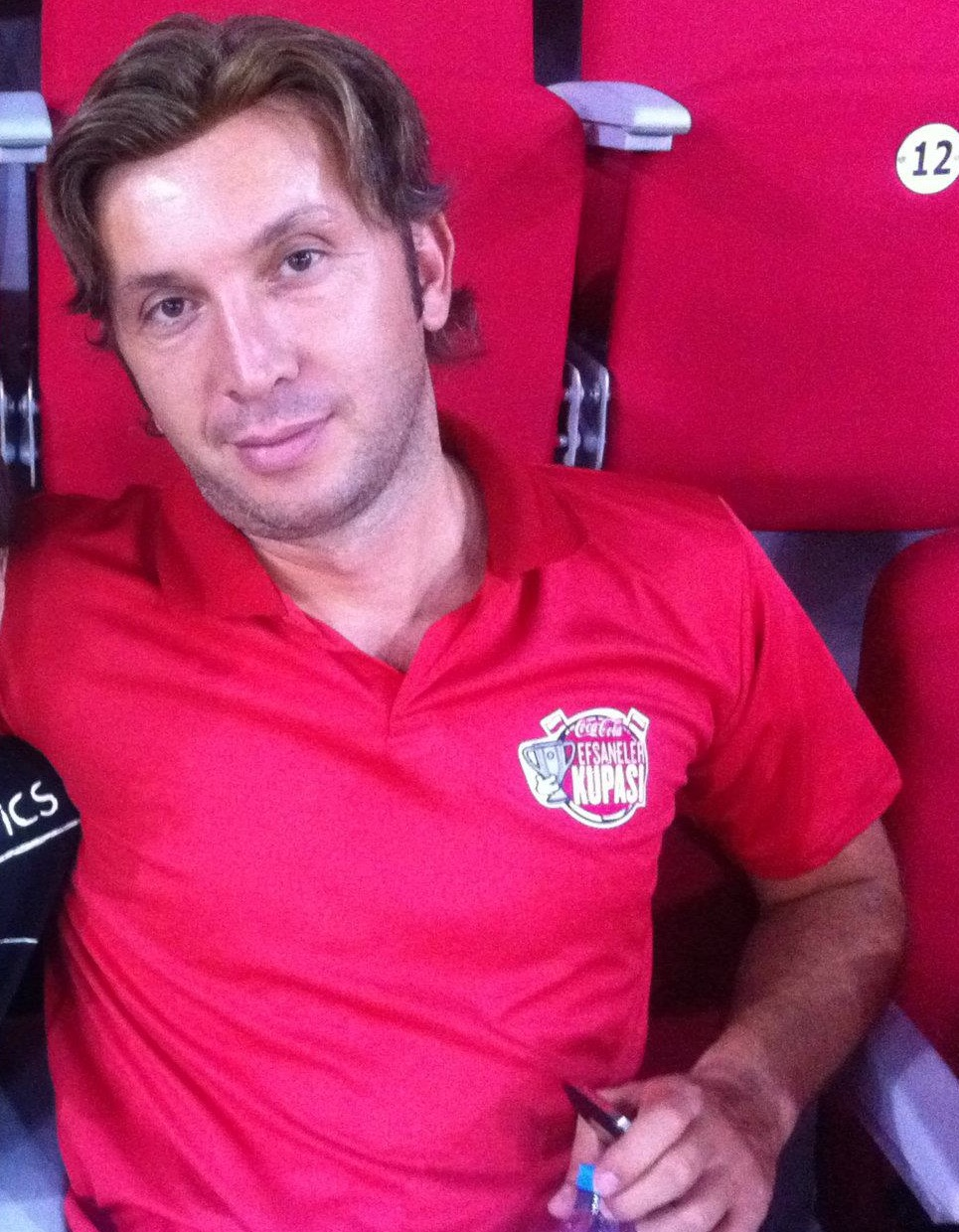 Evren 2012 Efsaneler Kupasında